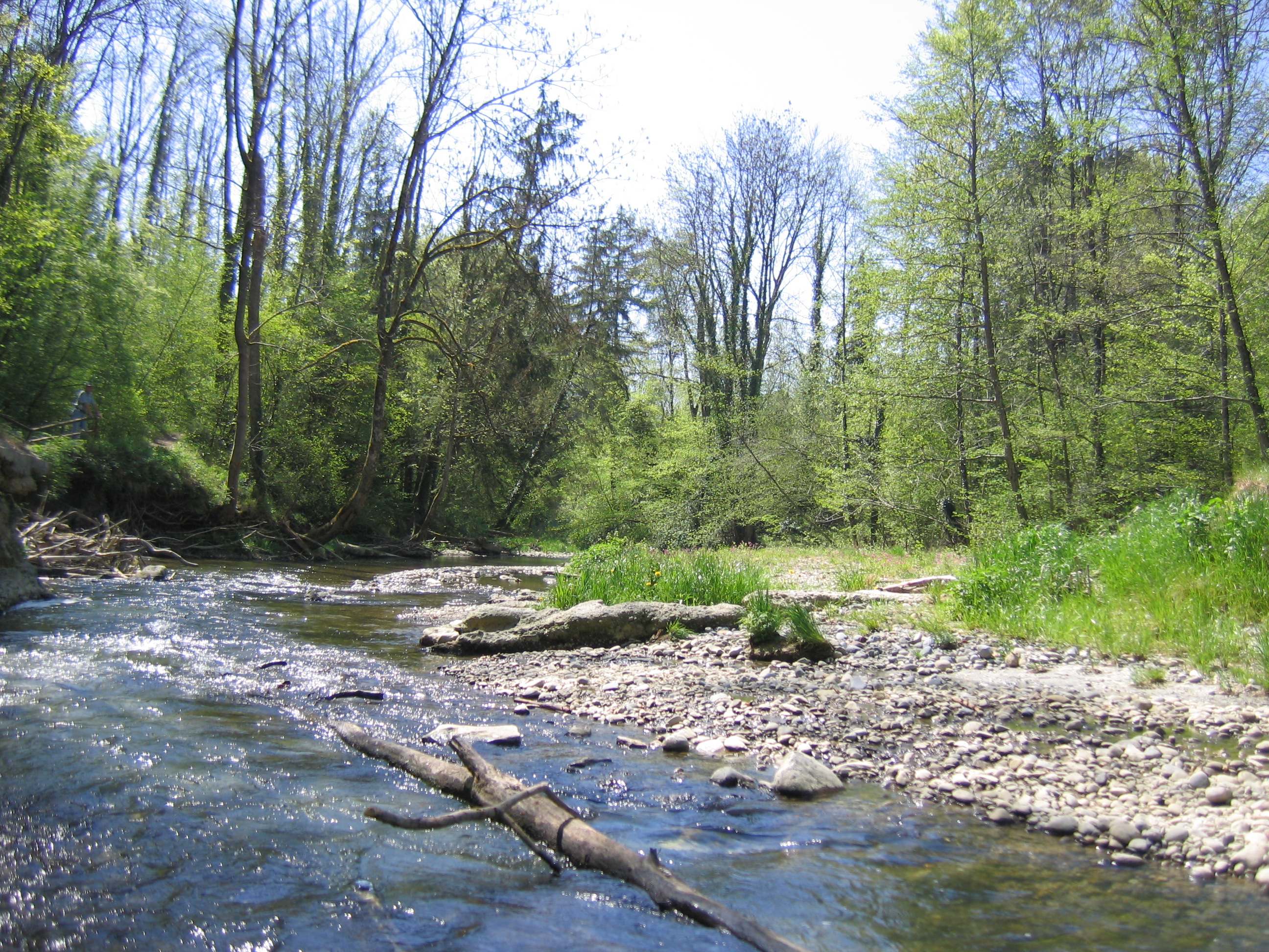 Germany - Baden-Württemberg - Bodenseekreis - Friedrichshafen: river Rotach